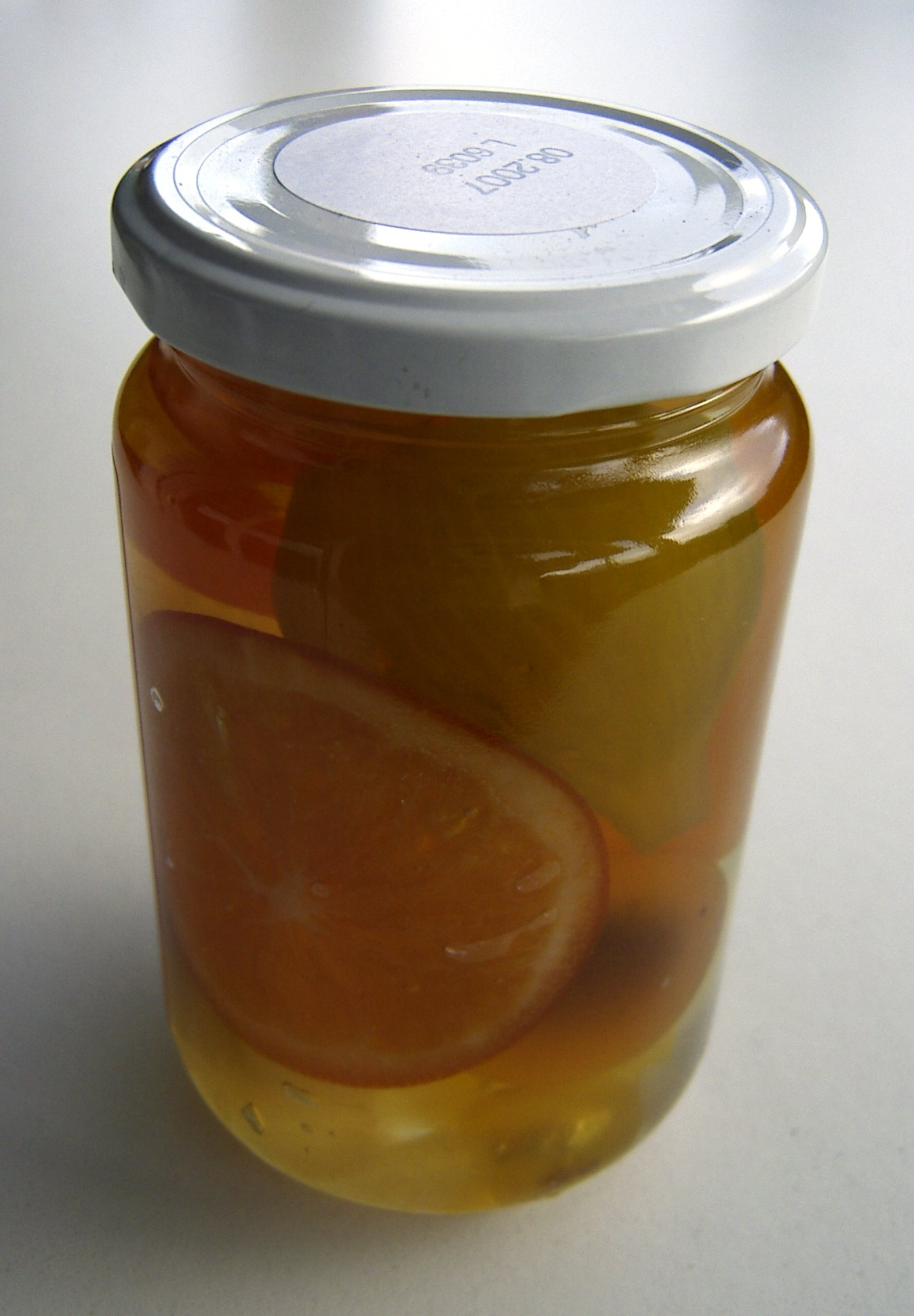 Mostarda